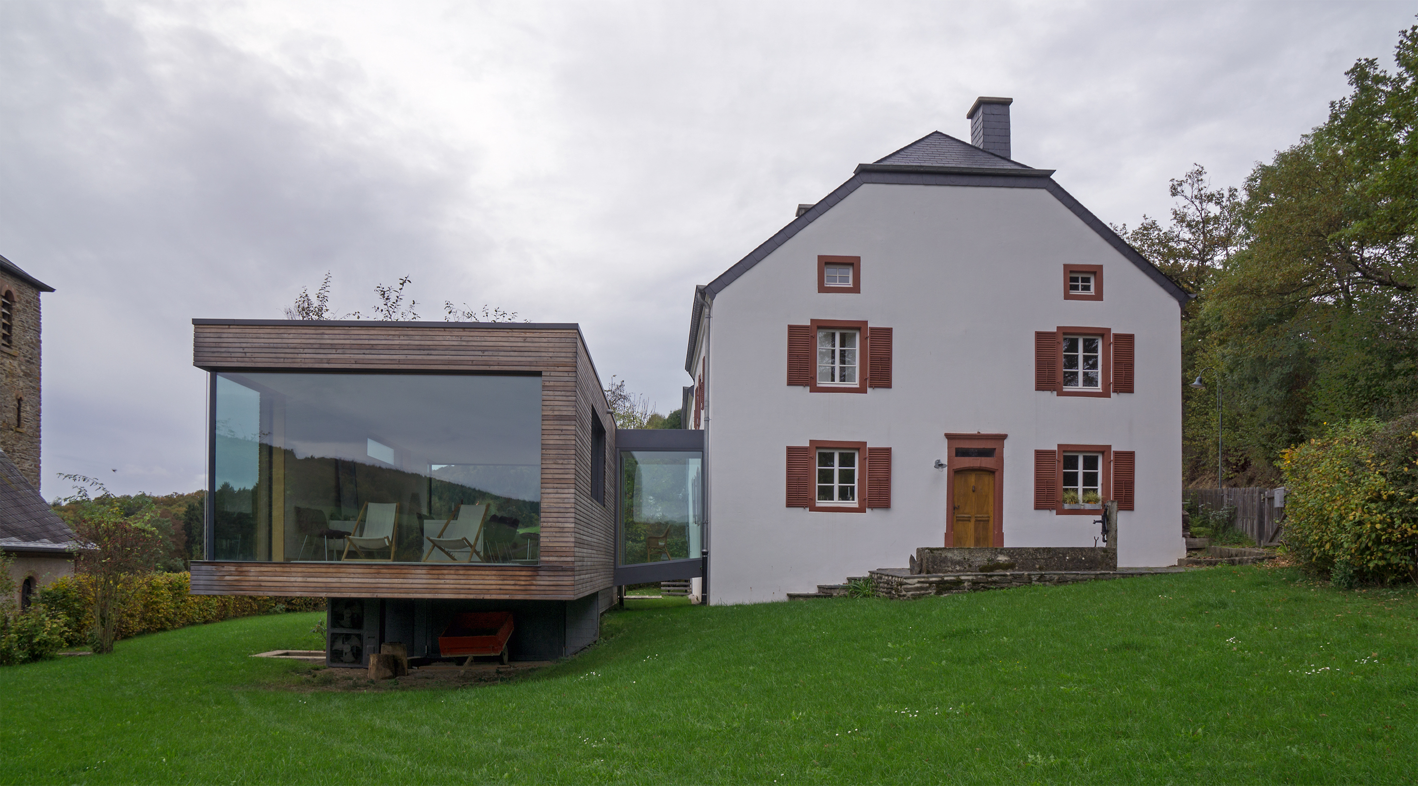 Former rectory in Mecher, 14 Denkert